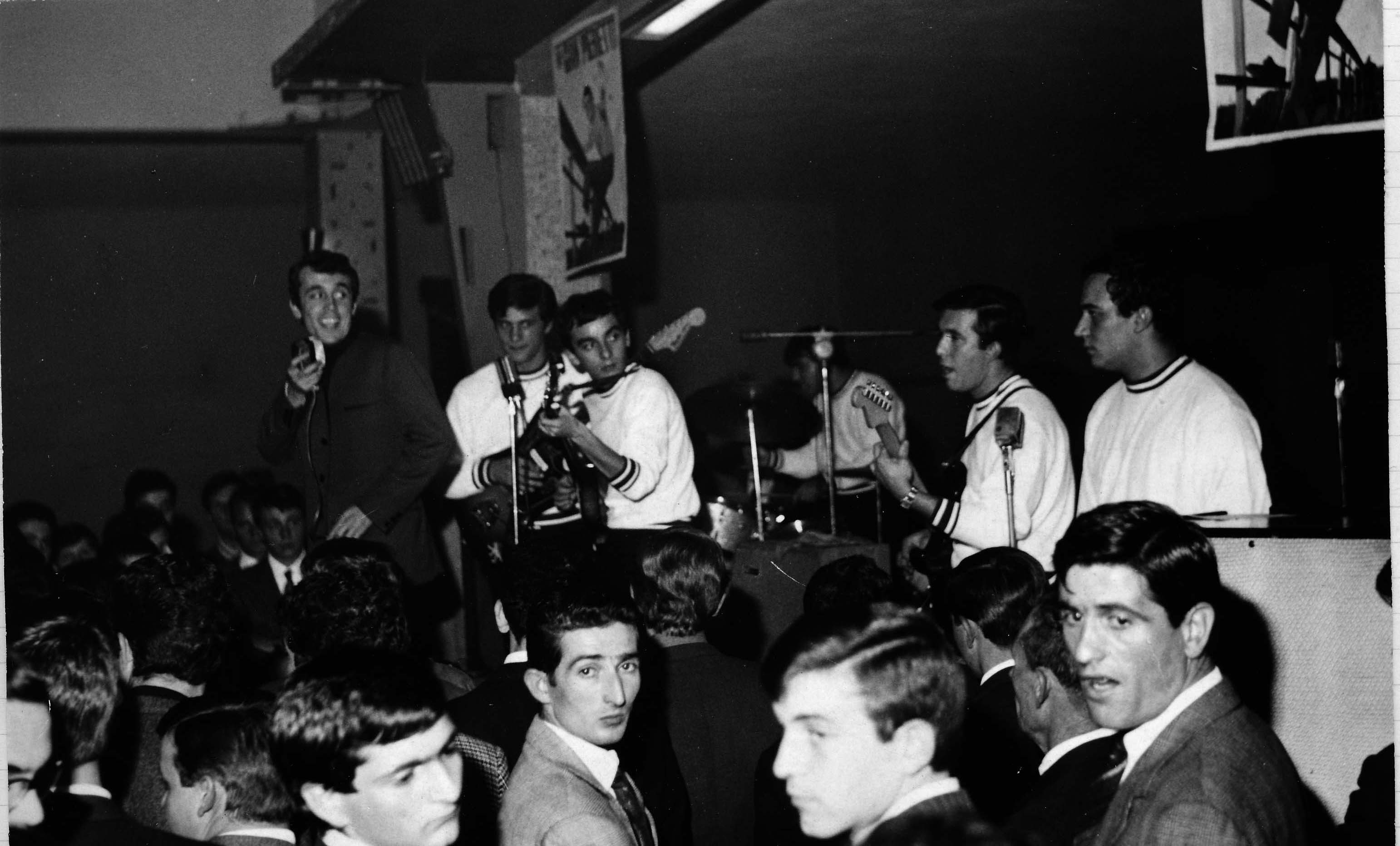 One of the first performances of Gian Pieretti and the "Grifoni".